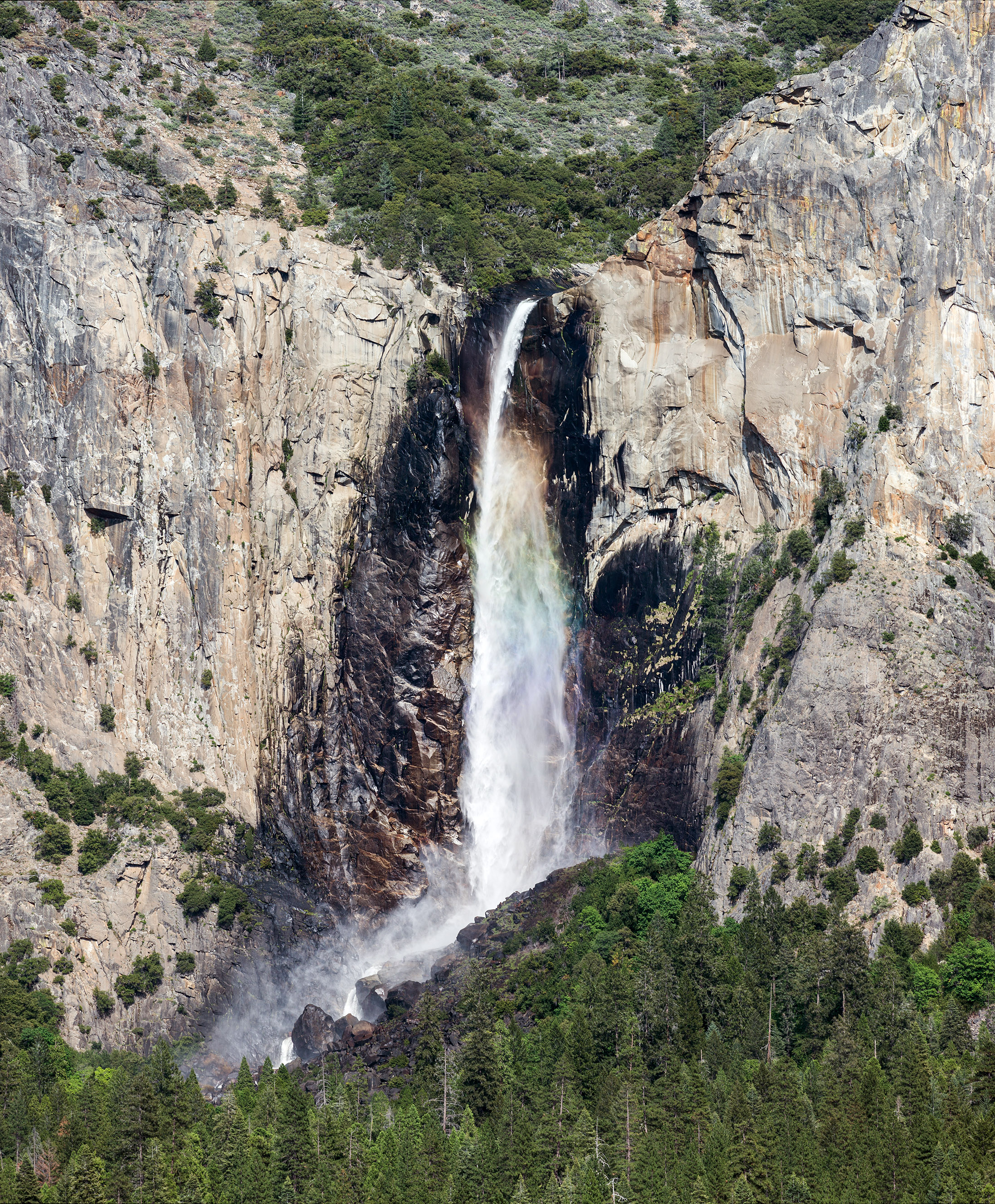 Bridalveil Fall as viewed from Tunnel View in Yosemite National Park, California, United States.